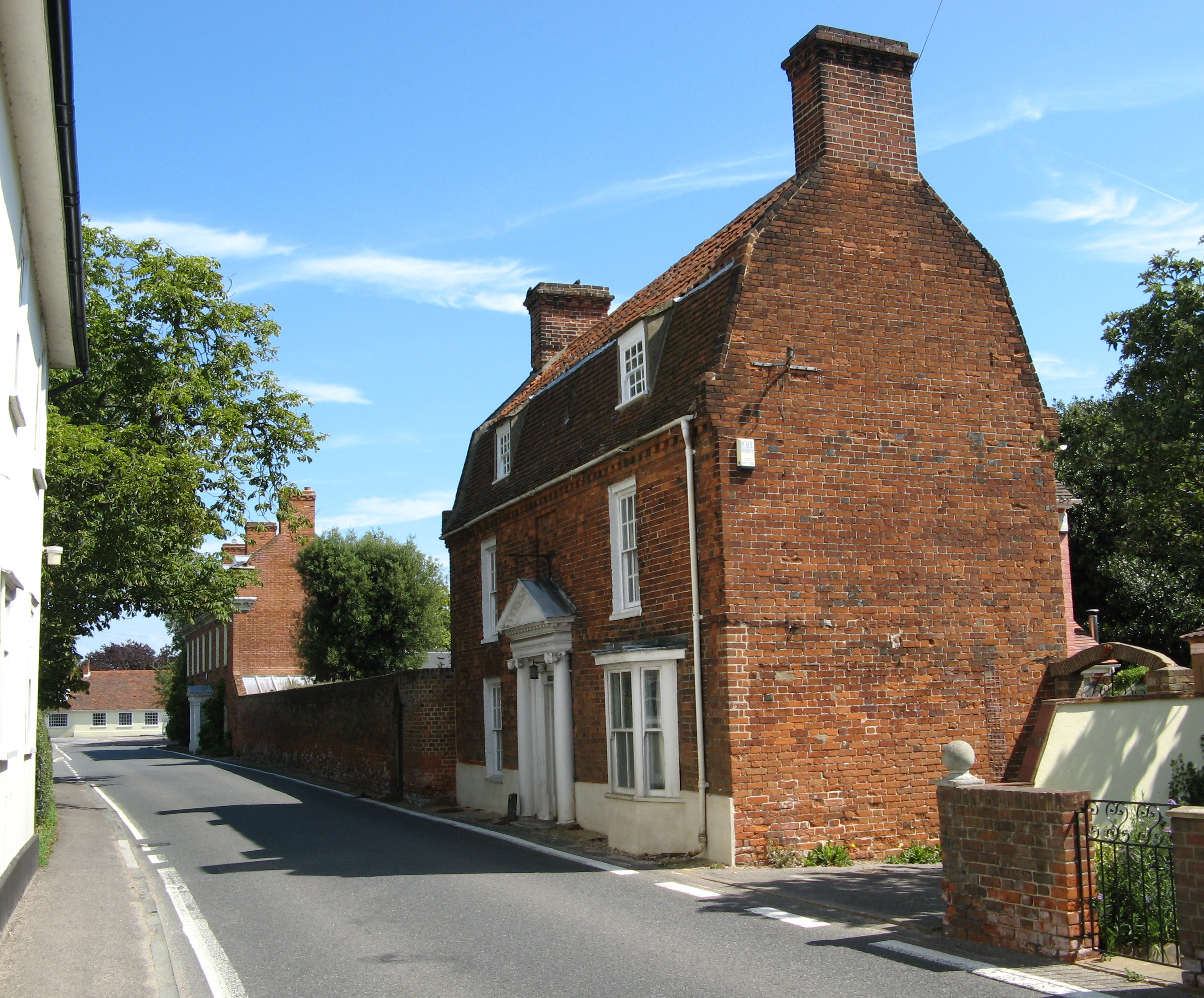 South Street, Tolleshunt D'Arcy, from south. The near brick house is D'Arcy Cottage, and further away is D'Arcy House where Margery Allingham lived.